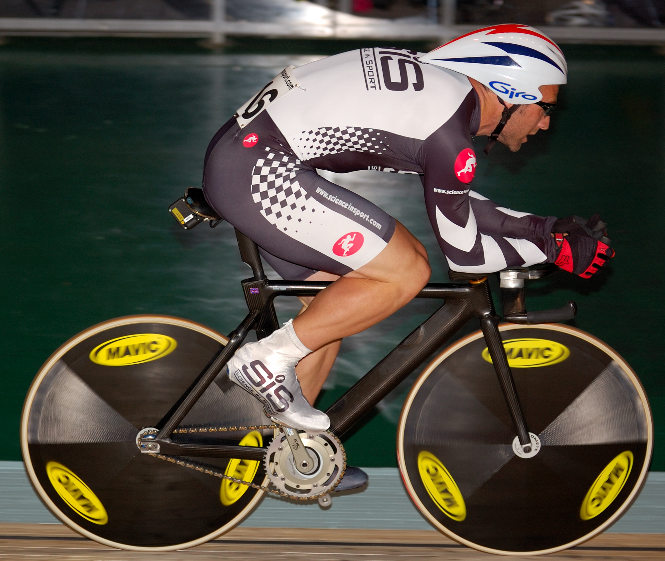 UK Track Cycling National Championships 2007 - Manchester Velodrome 1st - Jamie Staff 1m 03.7s - 56.533 kph 35.333 mph